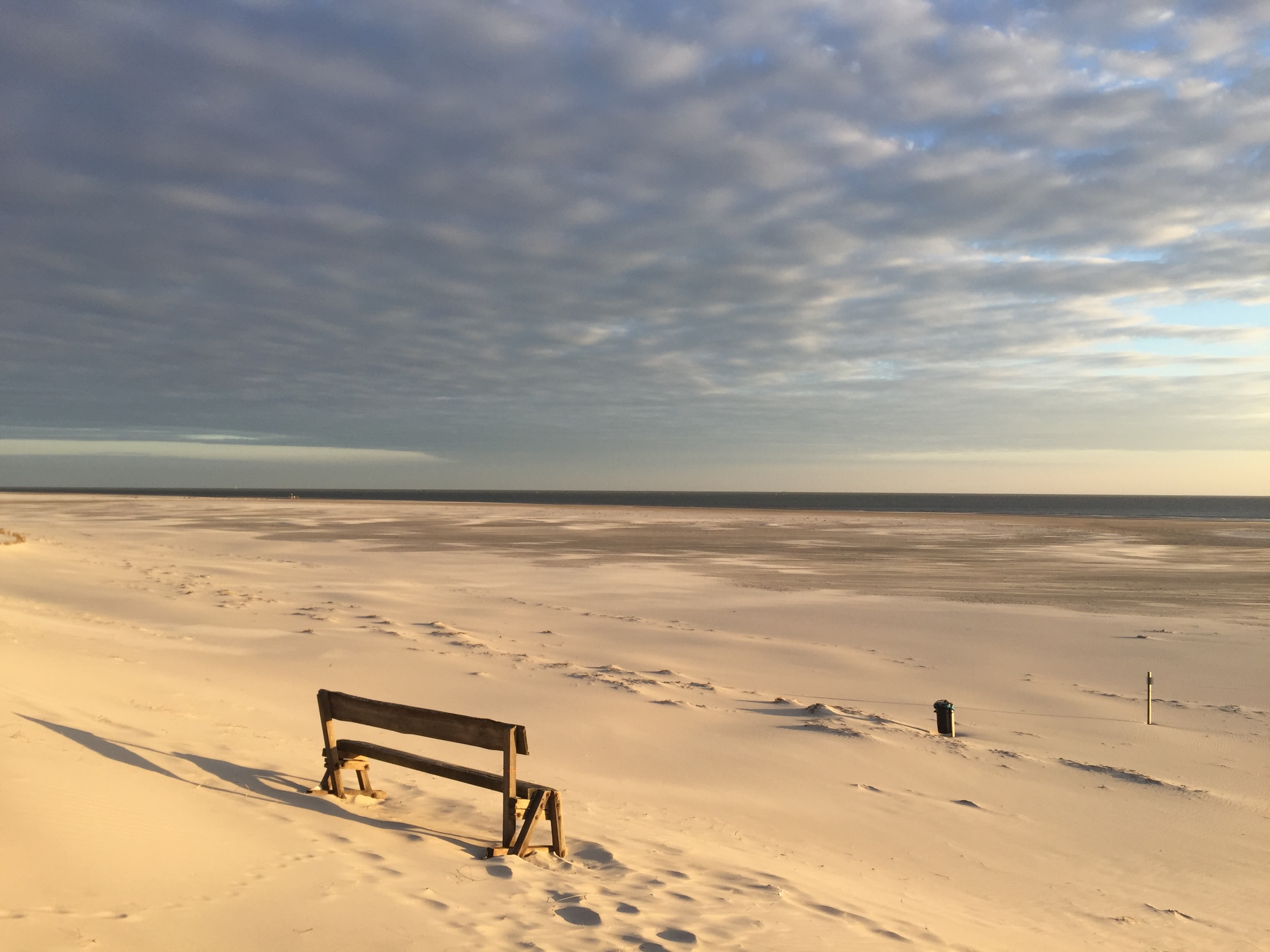 The making of this document was supported by the Community-Budget of Wikimedia Germany. Sonnenuntergang auf dem Kniepsand